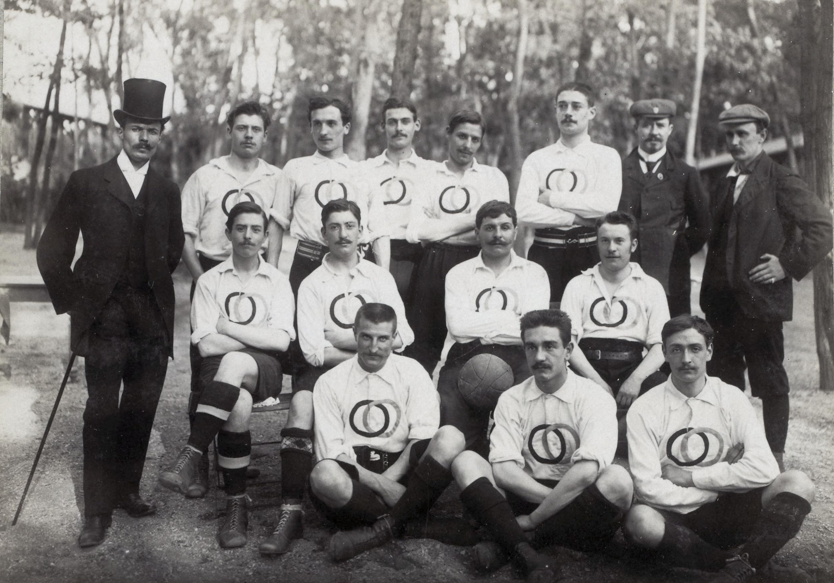 The French football team, silver medallists at the 1900 Olympic Games.